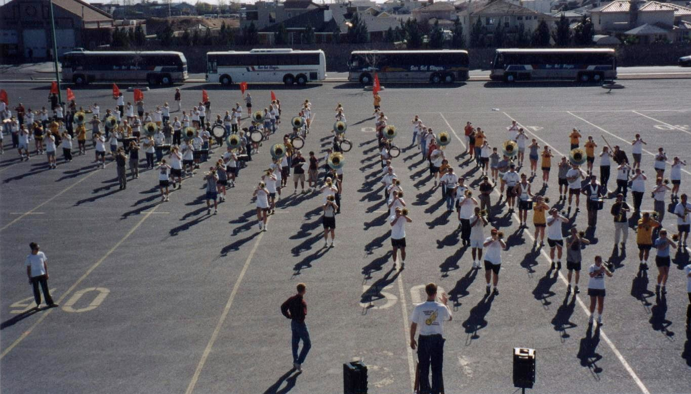 The University of Minnesota Marching Band practicing in El Paso, Texas, before the 1999 Sun Bowl